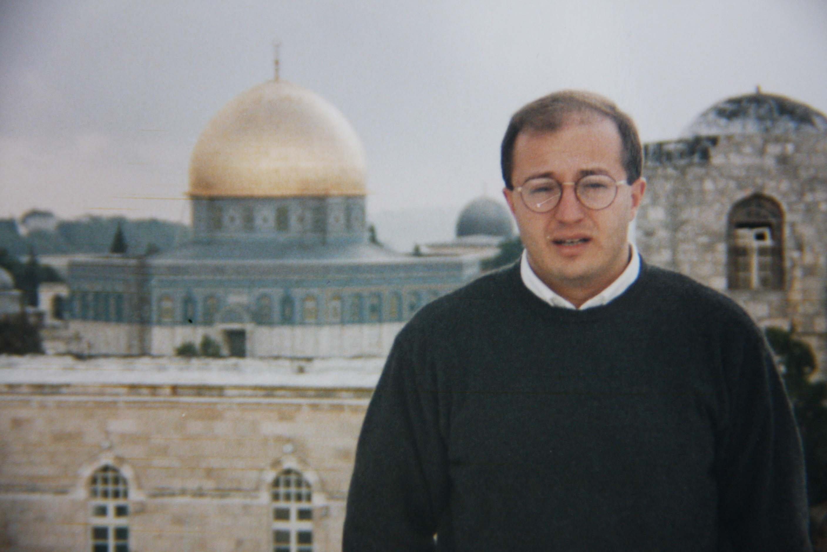 The priest Javier Velasco in Jerusalen.